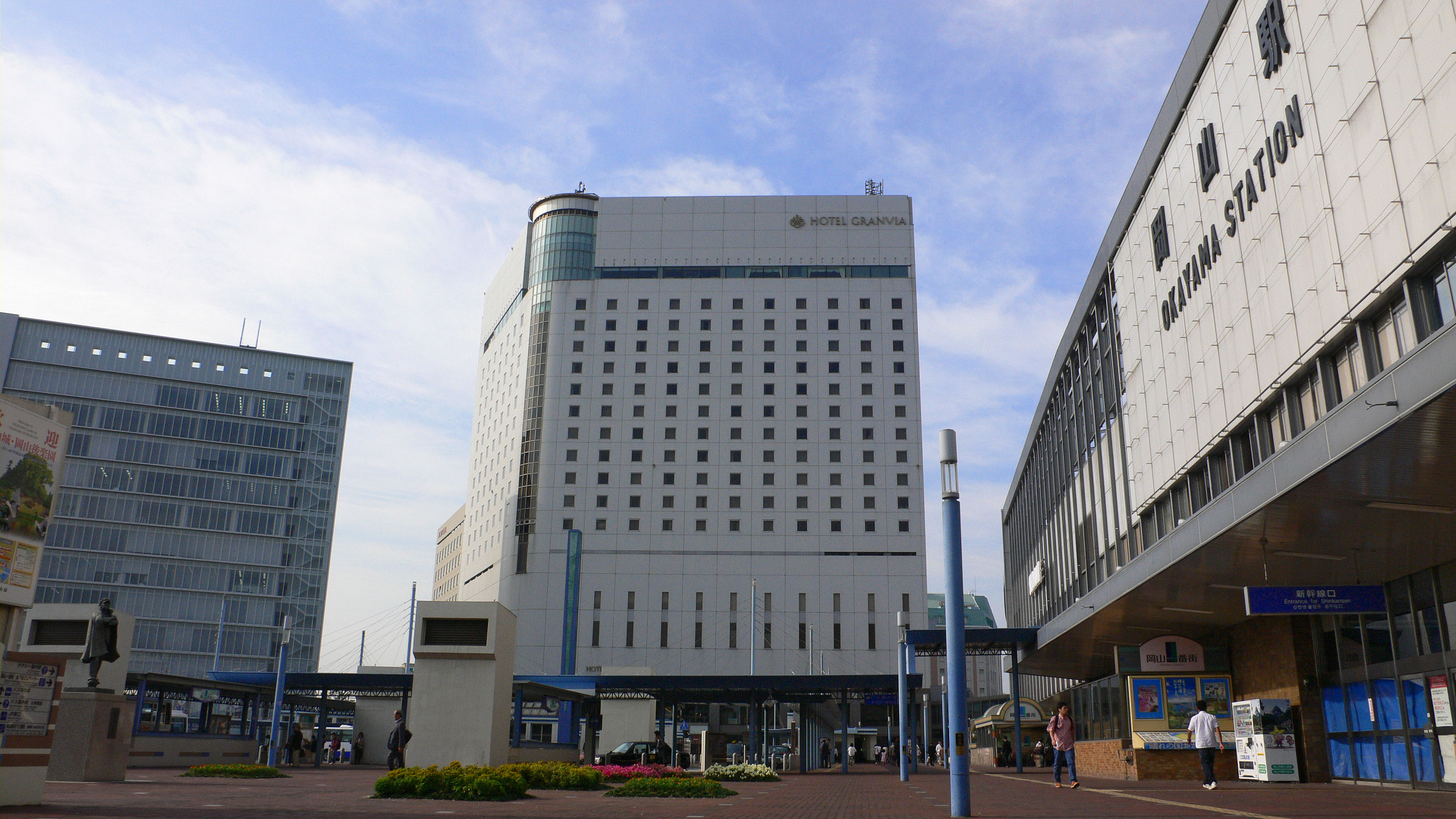 Okayama Station in Okayama, Okayama prefecture, Japan